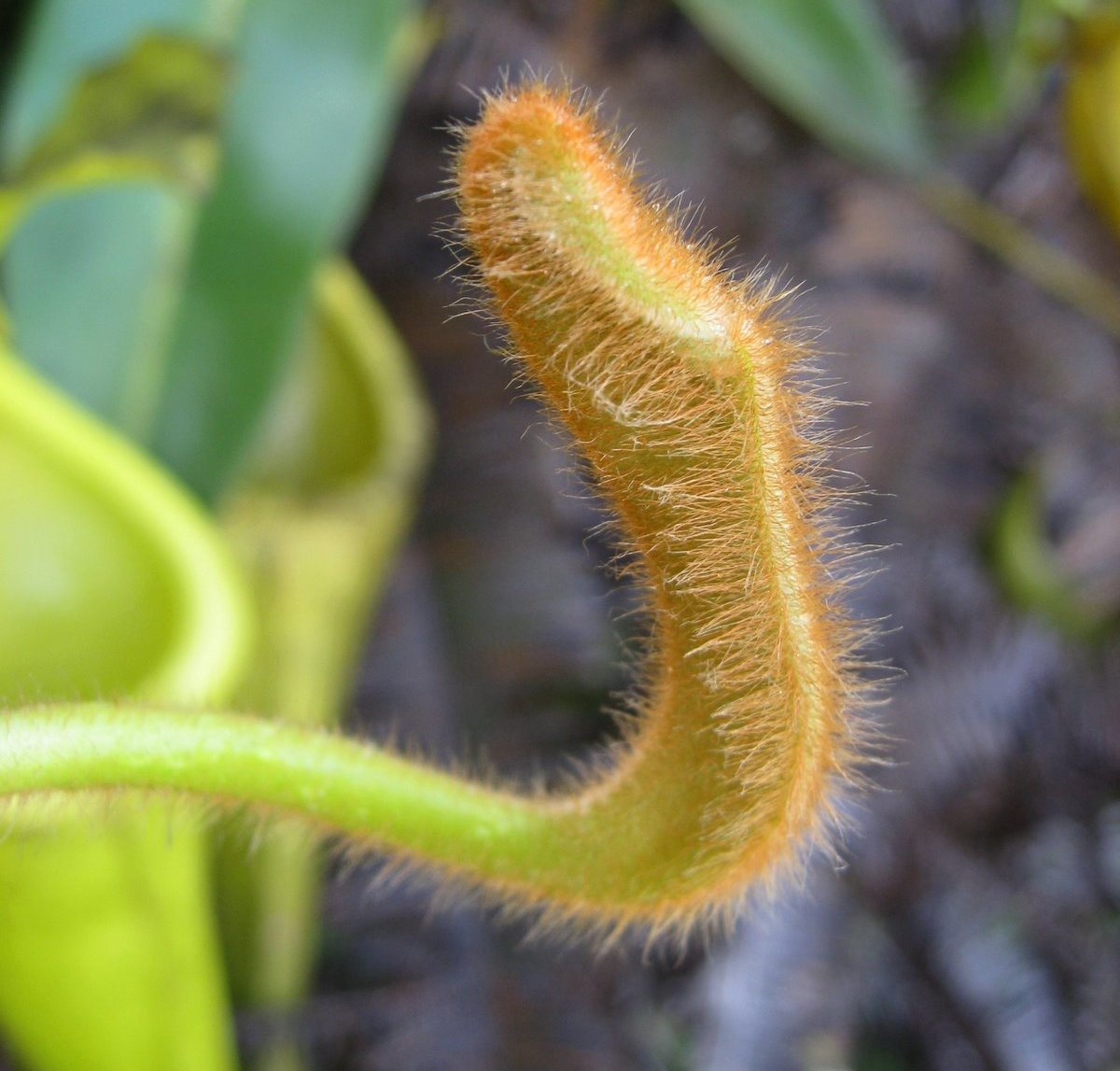 Nepenthes chaniana